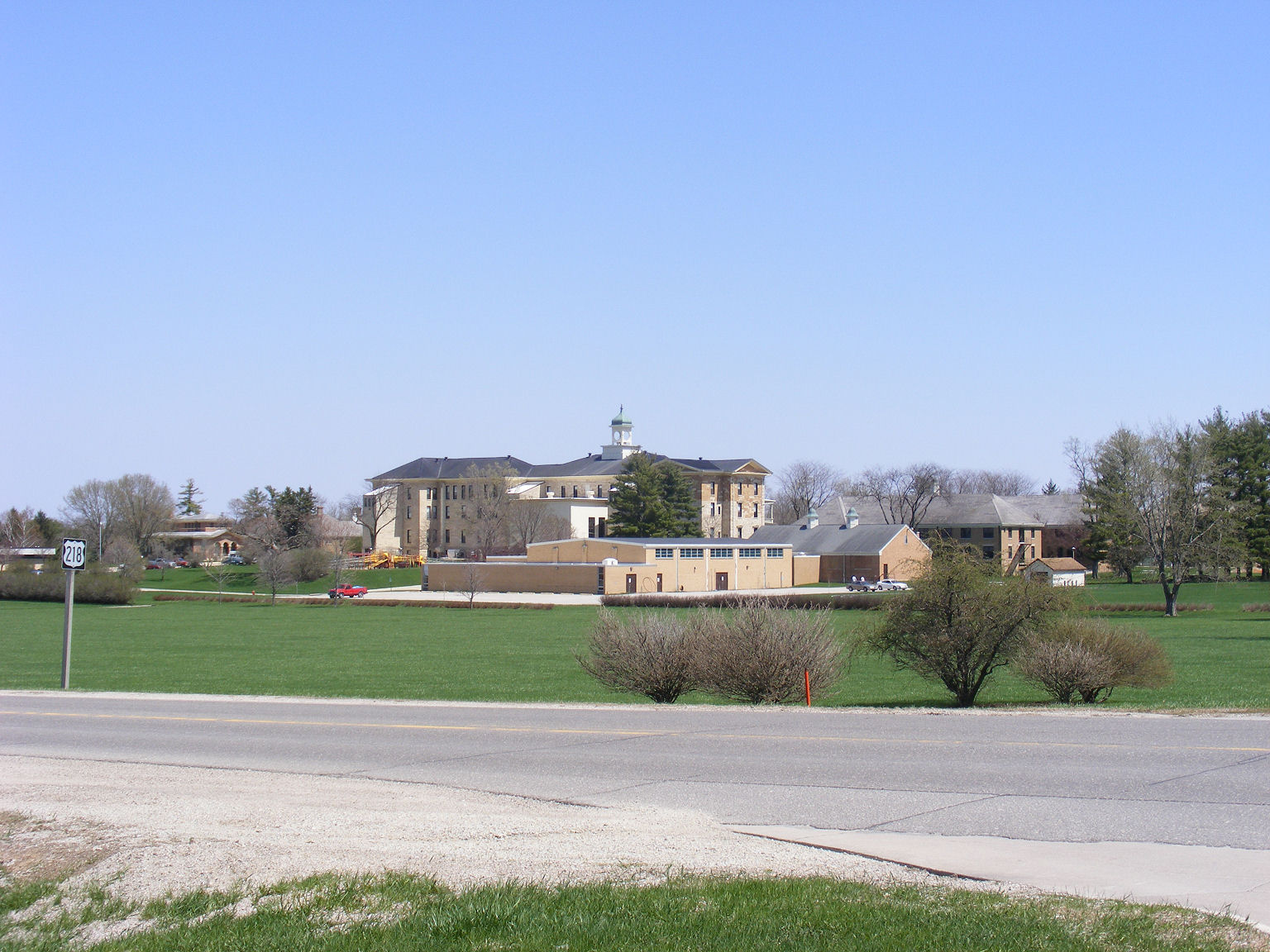 View of the Iowa Braille & Sight Saving School campus in Vinton, Iowa, looking northeast towards the school from the corner of K Avenue (US Highway 218) and 13th Street.